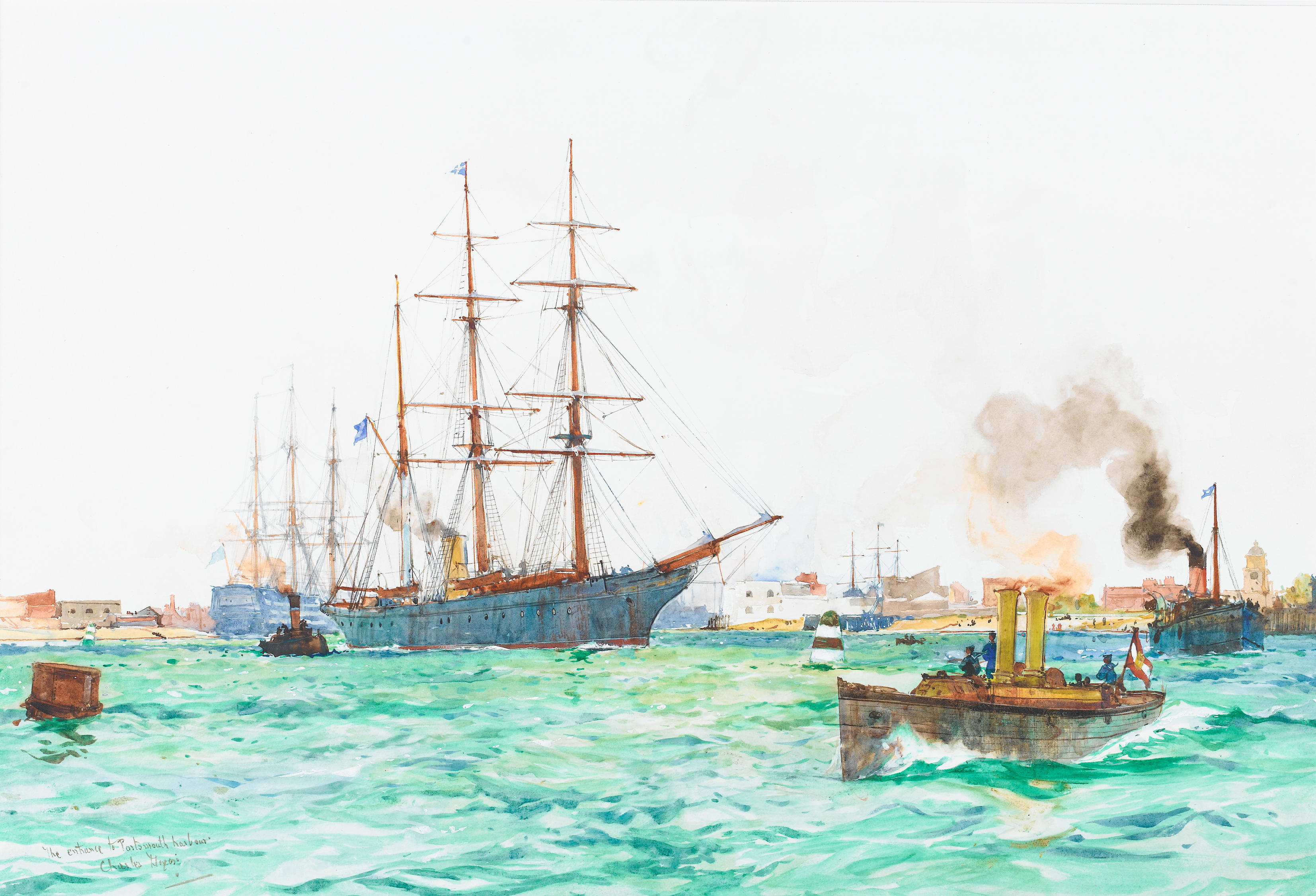 'The entrance to Portsmouth Harbour'. The steam yacht Valhalla, with HMS Victory in the background. [ Valhalla was wrecked and sunk off Cape St. Vincent in 1922.